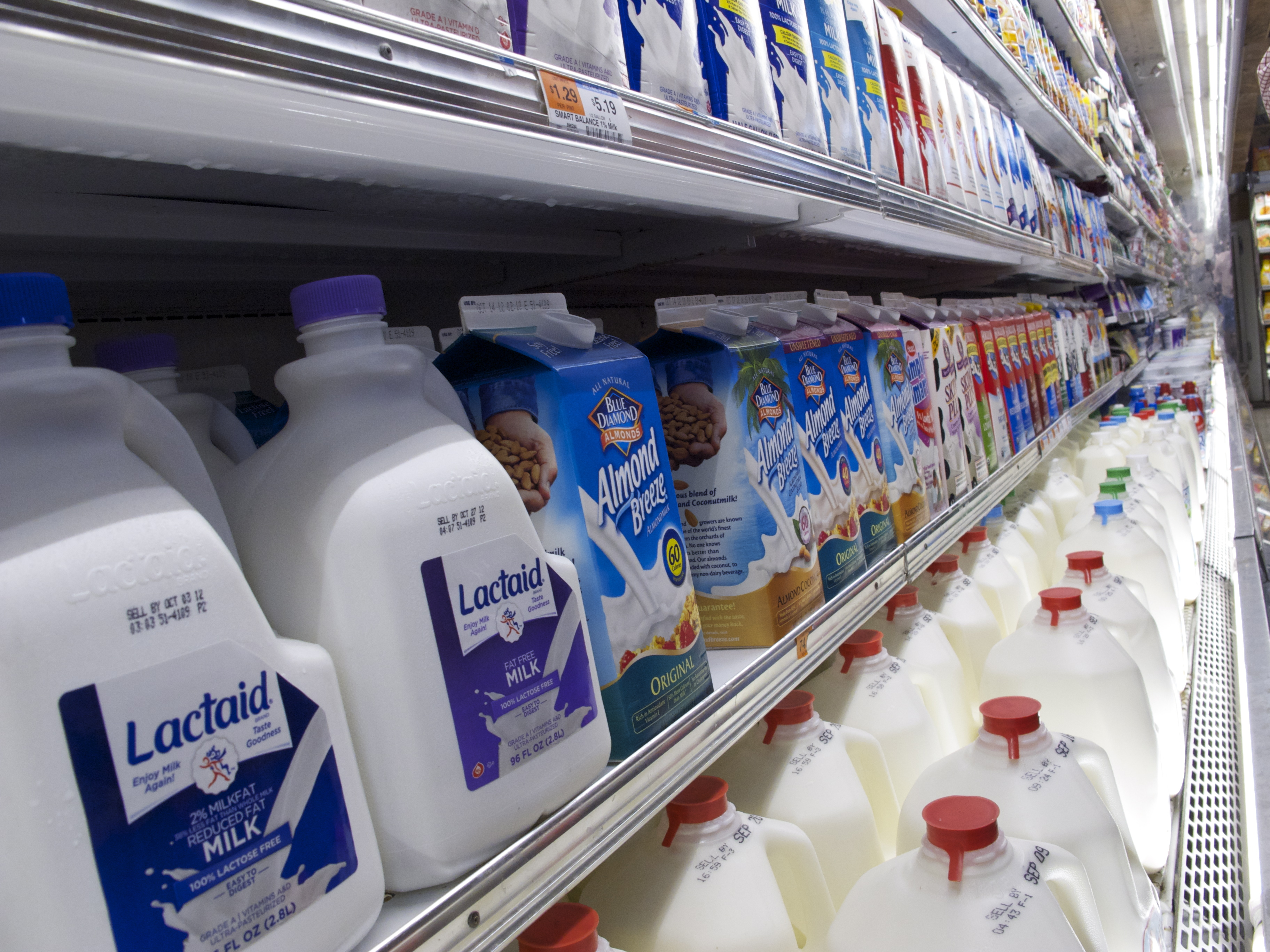 Milk Aisle Grocery Store